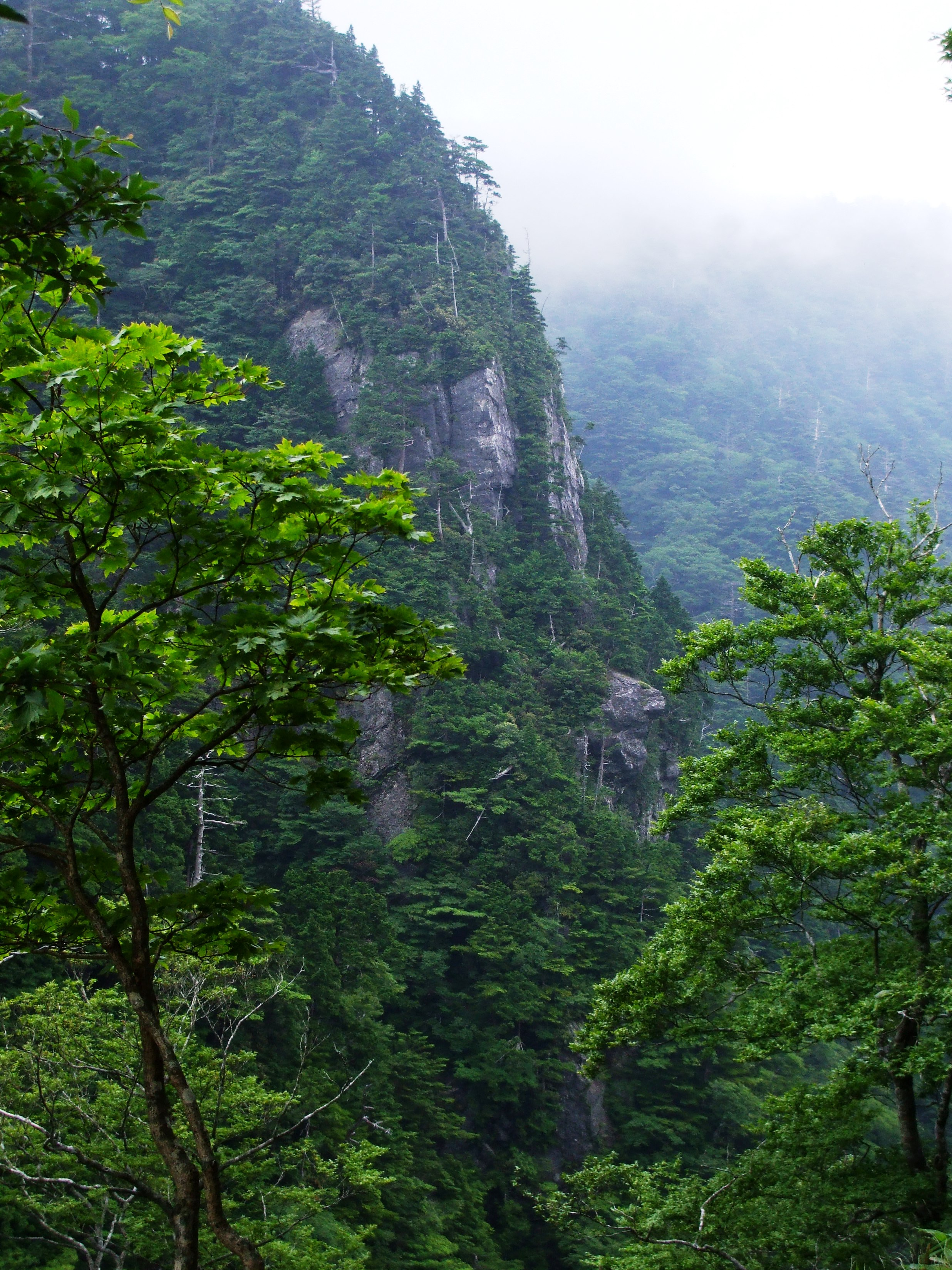 A stone wall of Mount Sanjo of Omine Mountains, Nara, Honshu, Japan.